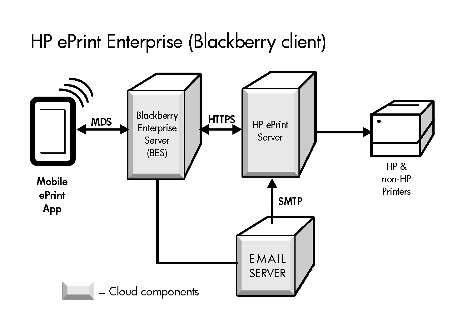 Figure 4. ePrint data flow for Blackberry devices.